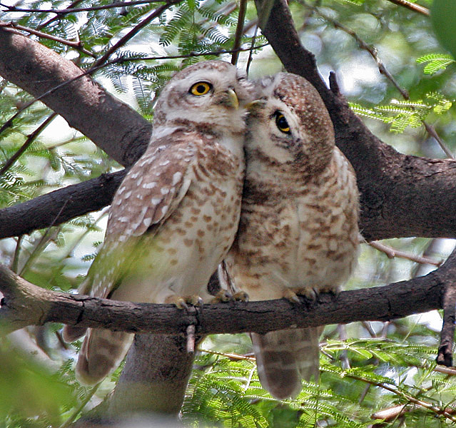 Spotted Owlet Athene brama at Keoladeo National Park, Bharatpur, Rajasthan, India.